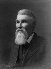 Portrait of Senator James Gordon of Mississippi